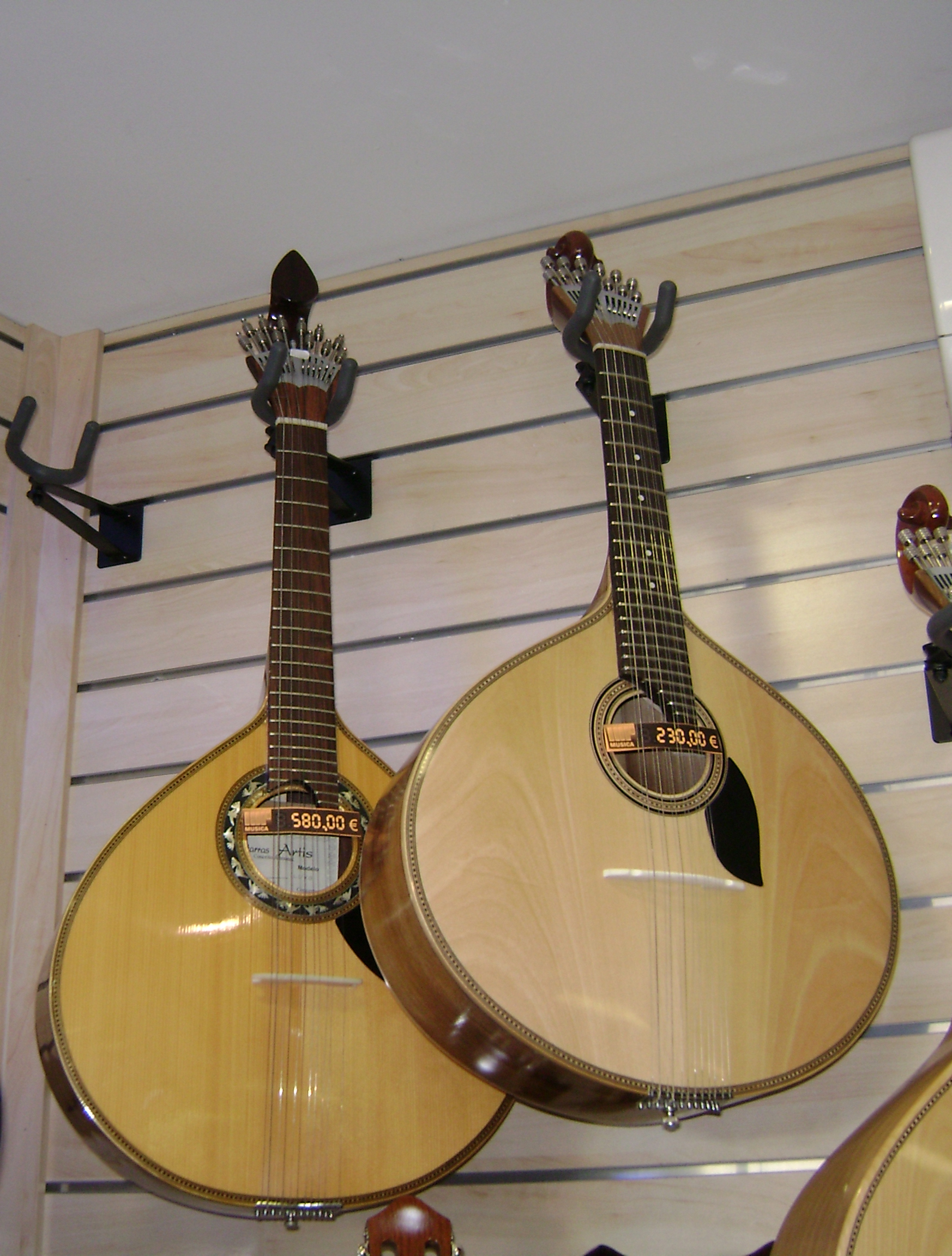 Left: Coimbra Portuguese guitar.Right: Lisbon Portuguese guitar.